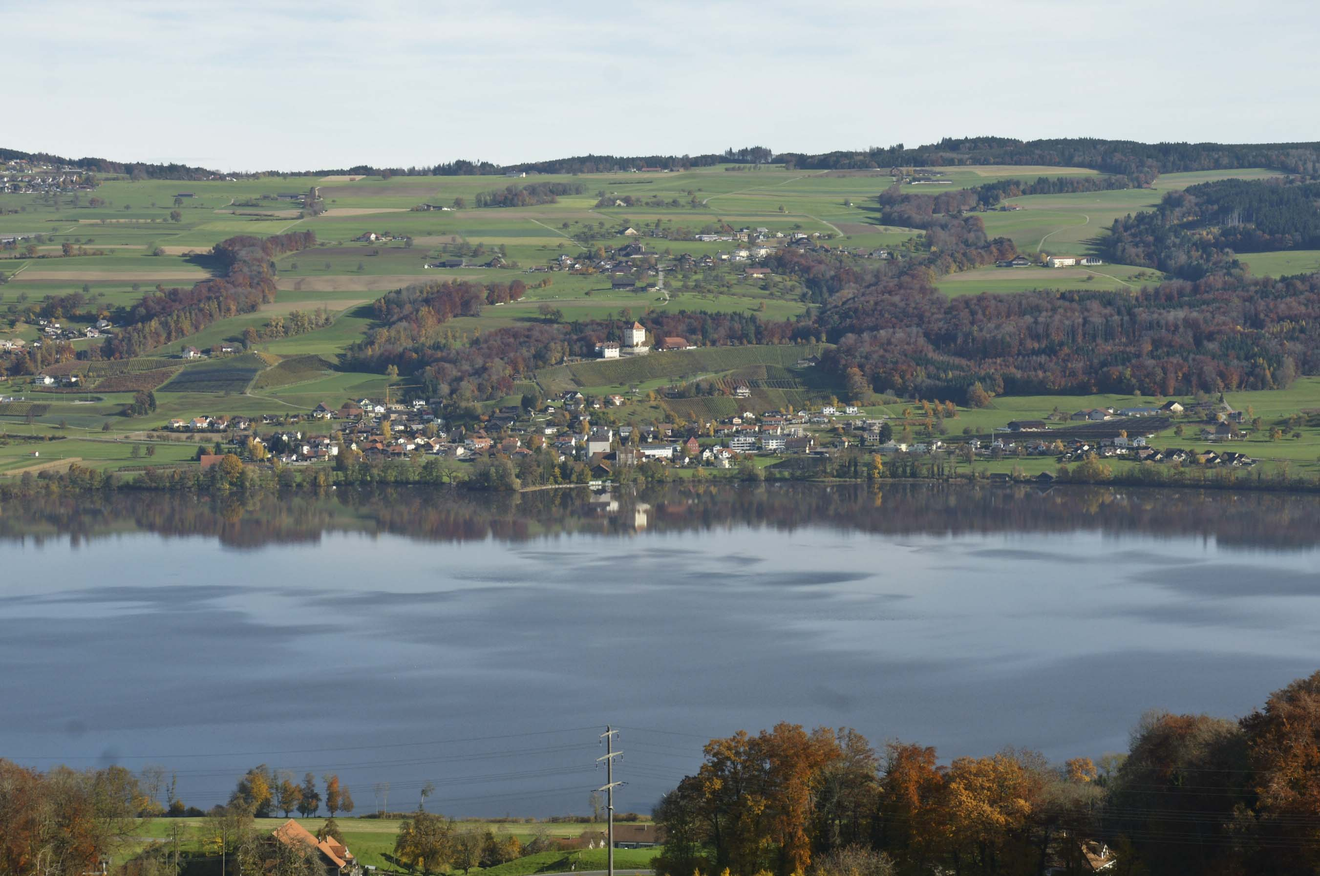 Gelfigen in the canton of lucerne, lake Baldegg